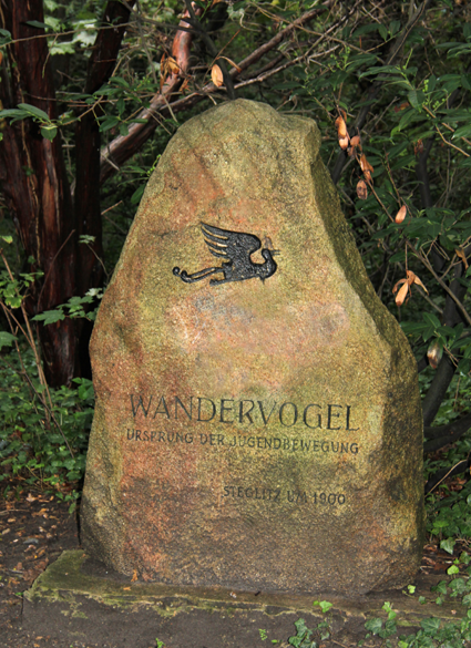 Memorial stone: Foundation of the Wandervogel movement around 1900 in Berlin-Steglitz